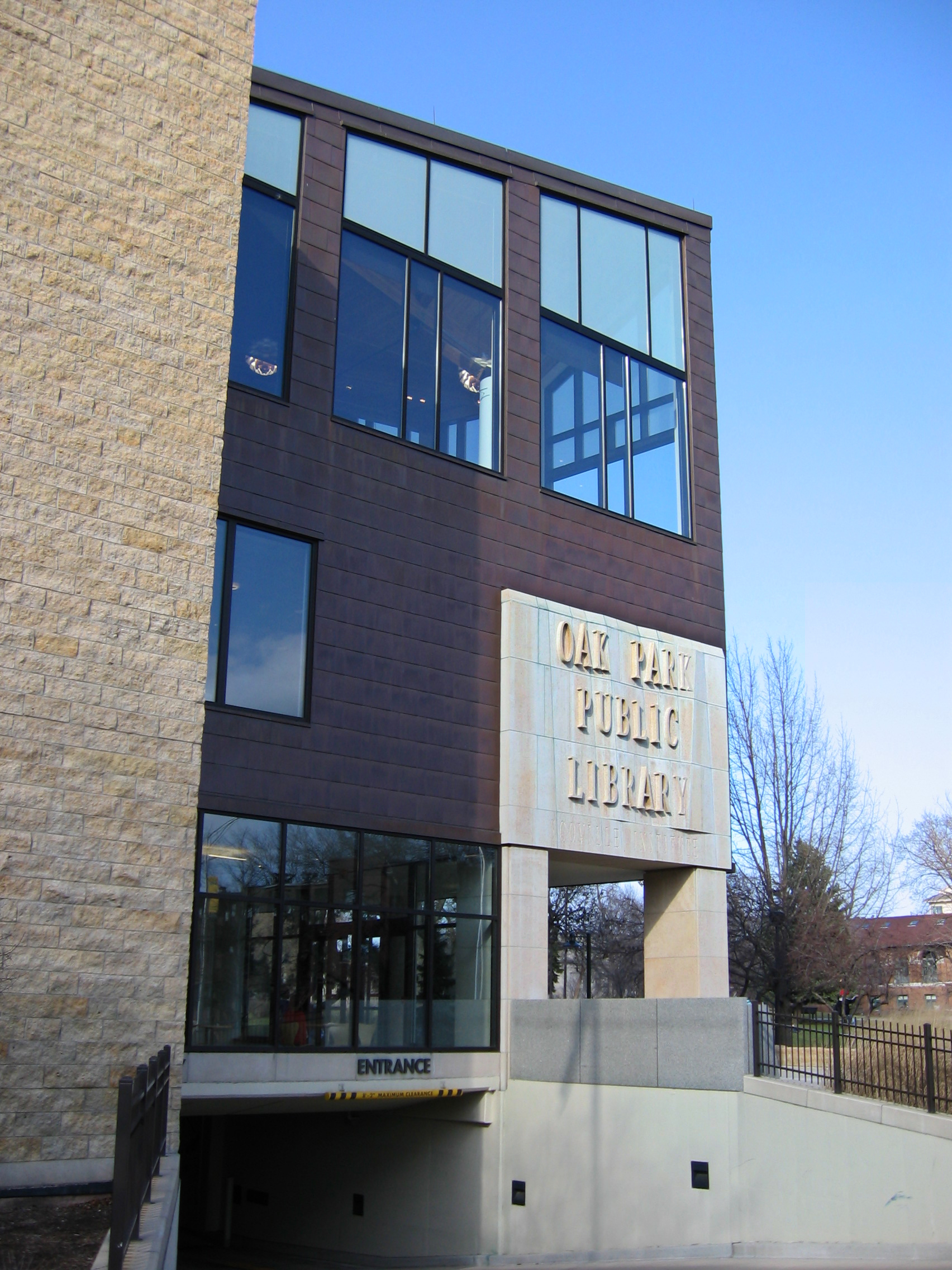 Photo by User:AudeVivere